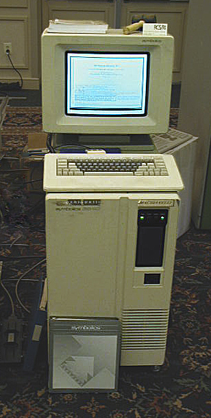 Symbolics 3640 lisp machine running the Genera operating system in the Retro-Computing Society of RI display at the Vintage Computer Festival East 1.0.